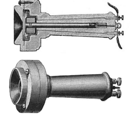 Telephone receiver nicknamed "butterstamp".